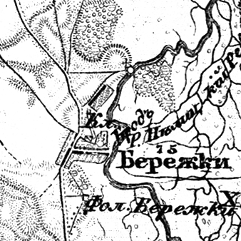 Berezhky on the map "Военно-топографическая карта Российской Империи" (known as "Schubert's map"), XX 5, 1866-1887 (issued in 1913).